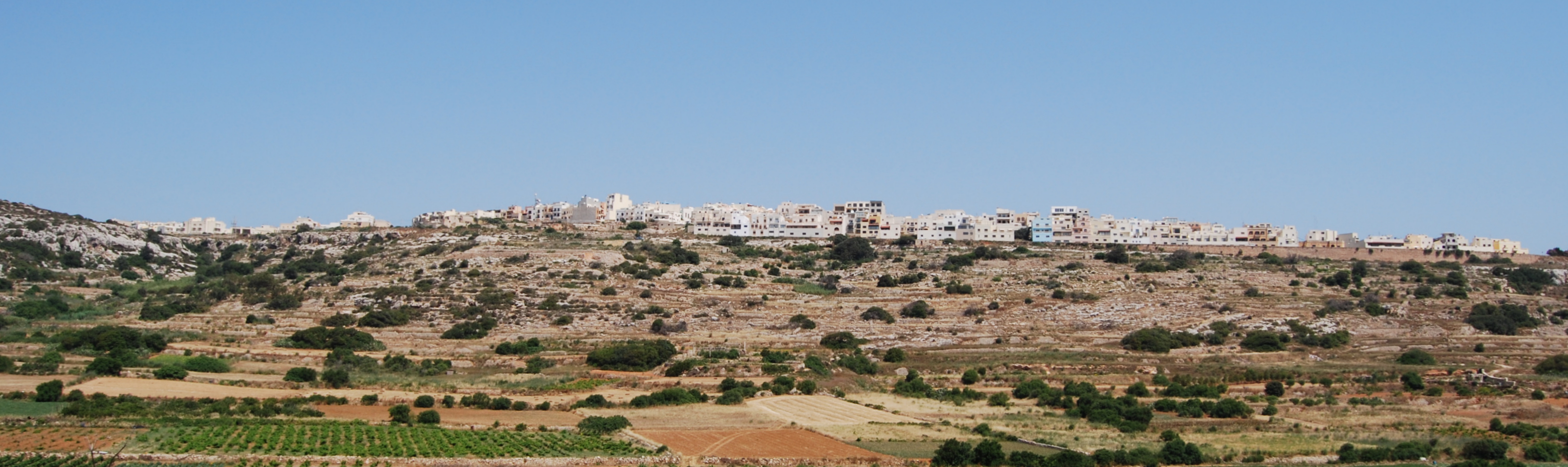 The town of Mellieħa, Malta. Photographed from a hiking trail near Xemxija.